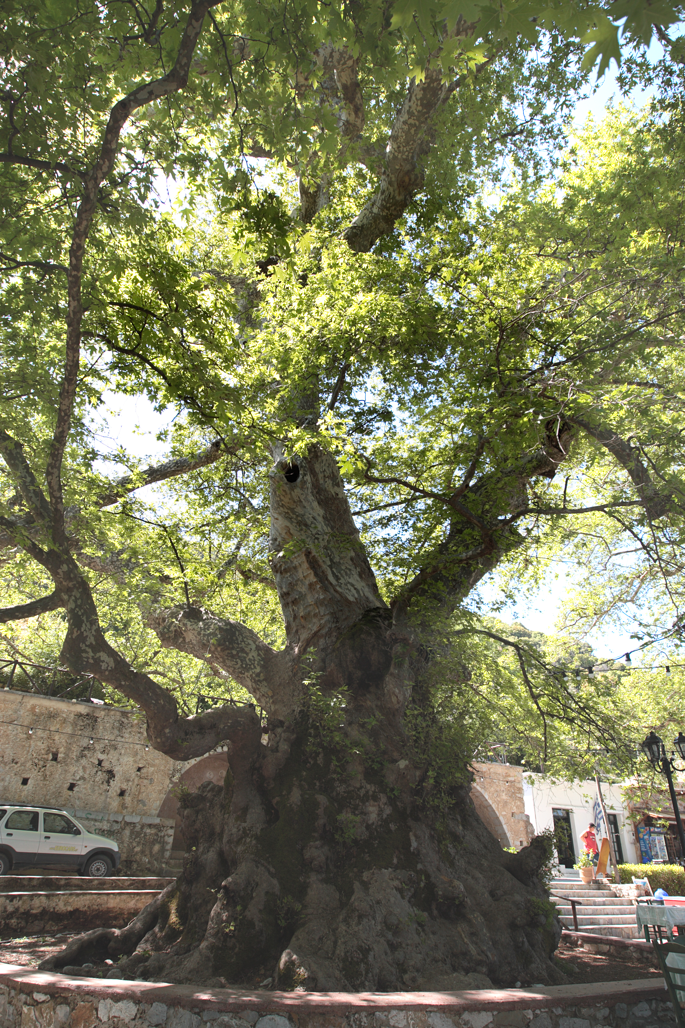 Platanus orientalis in Krási, Crete